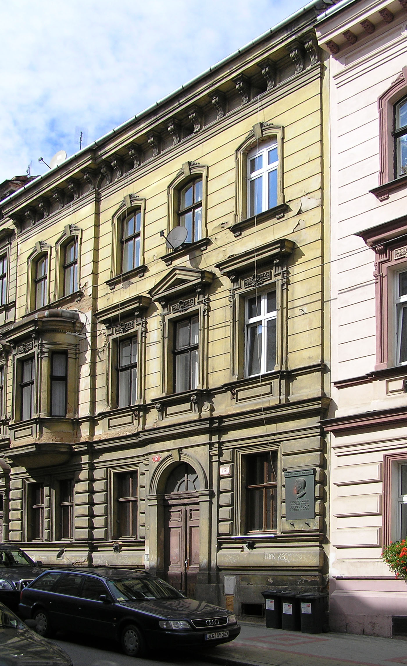 House No 17 in Havlíček Street in Pilsen, Czech Republic. Czech journalist and writer Julius Fučík lived here 1913-1937.